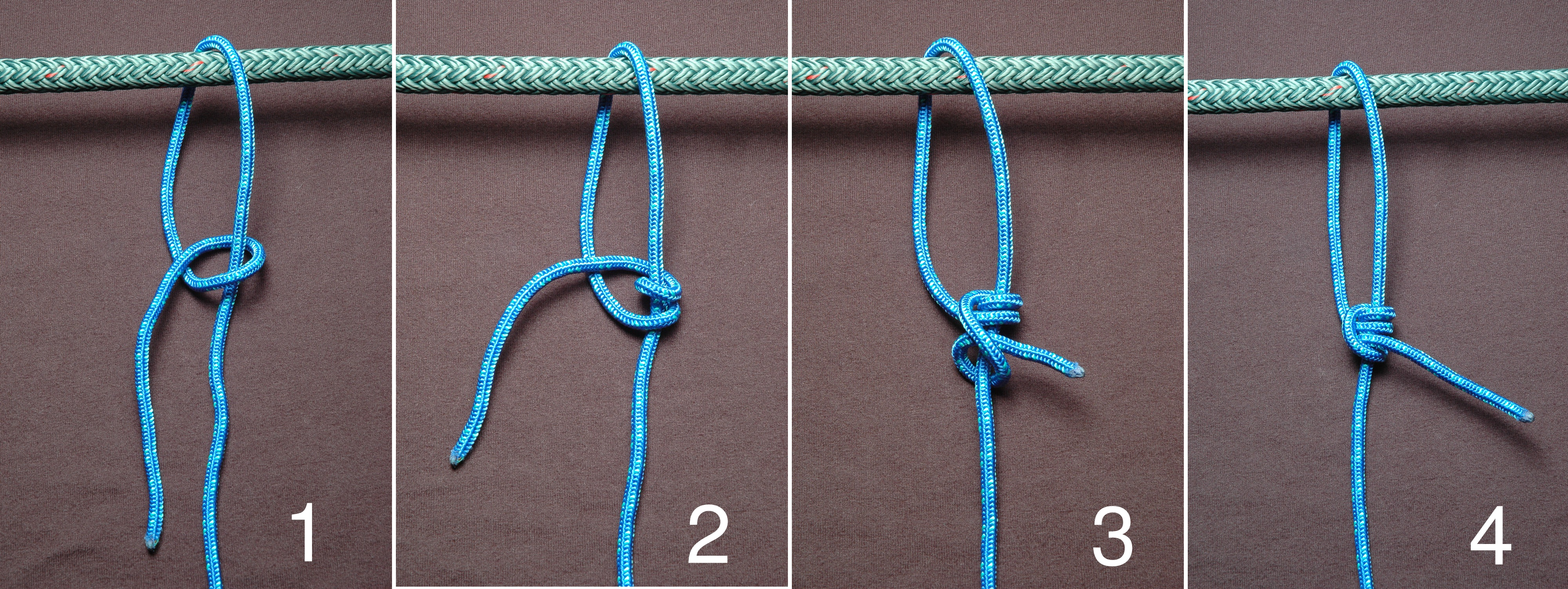 Four steps in creating Taut-line hitch ABOK #1800, based Rolling Hitch(1) #1734.